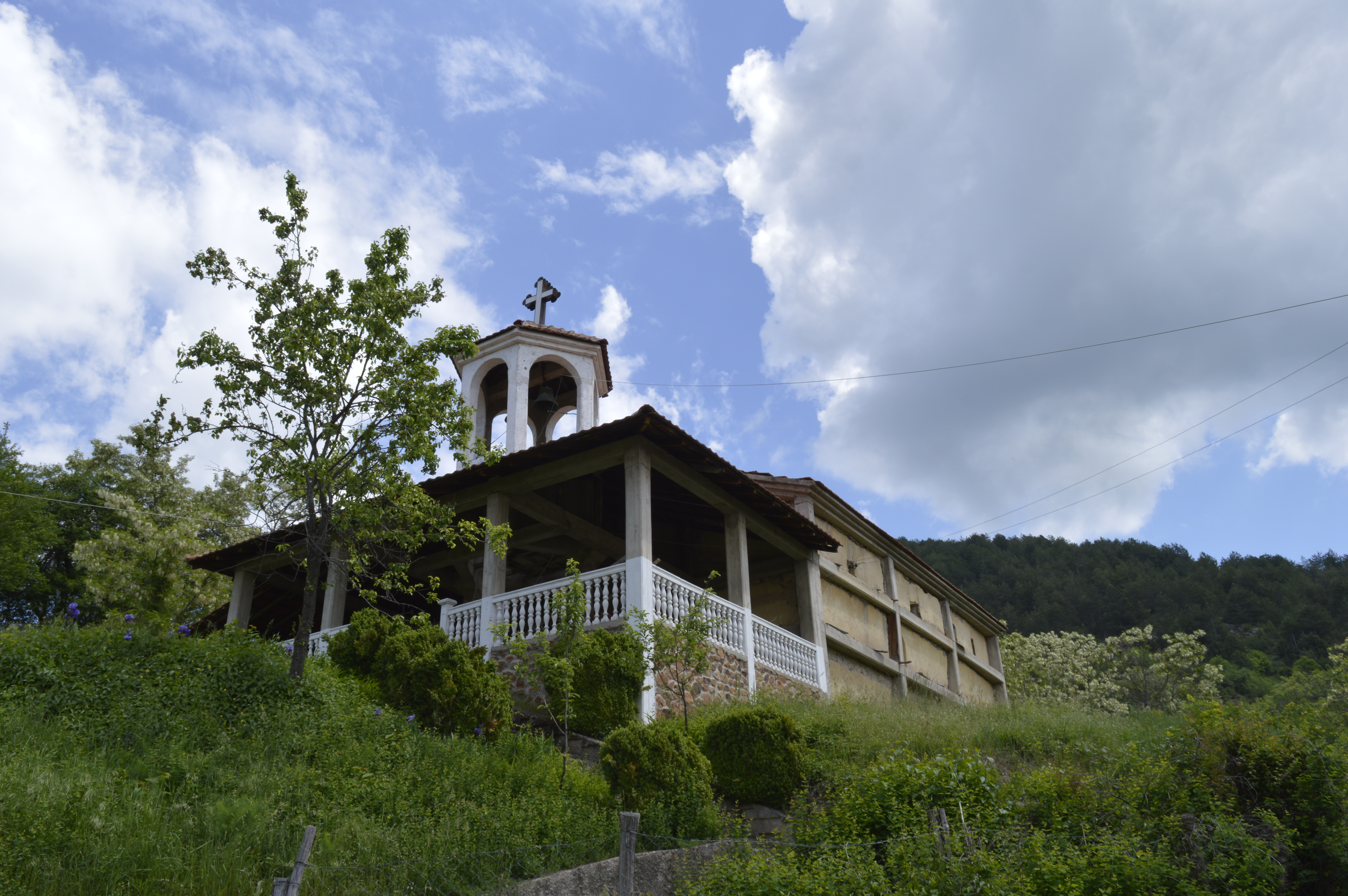 View of the St. Demetrious Church in the village Pančarevo